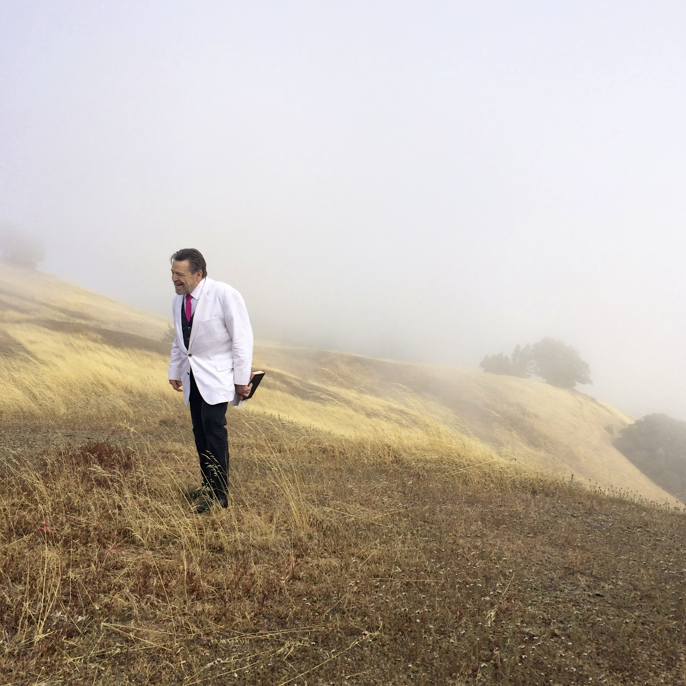 John Perry Barlow was minister for friend/brother Steve Kromer's wedding at Mount Tamalpais on July 11, 2014. Photo by Emily Allstot.